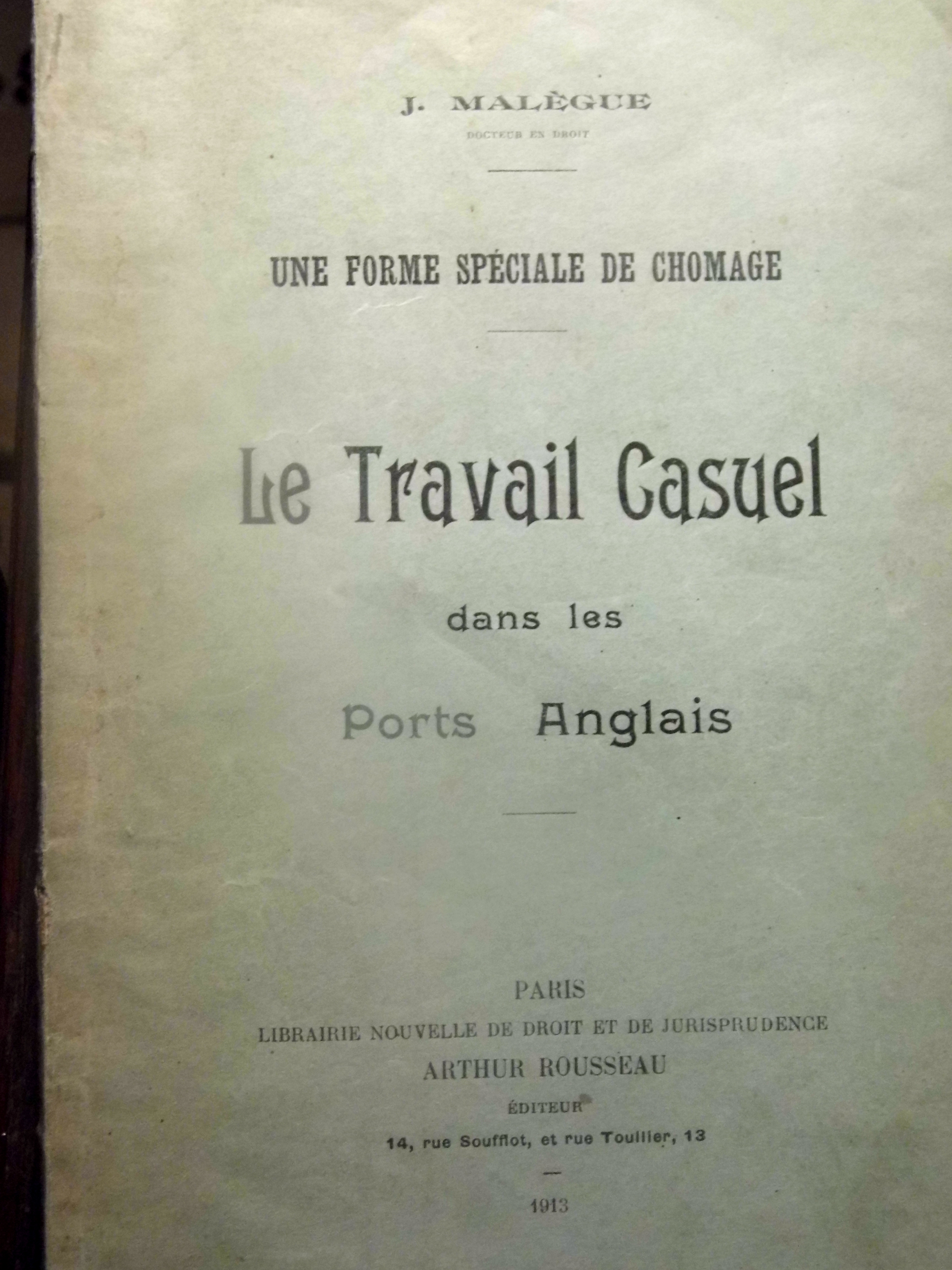 Cover page of Josep Malègue's dissertation published in 1913